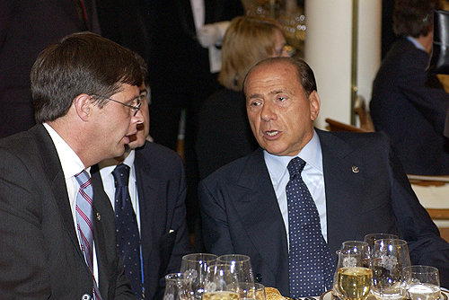 CATHERINE PALACE, TSARSKOYE SELO. Italian Prime Minister Silvio Berlusconi (right) and Dutch Prime Minister Jan Peter Balkenende at the official lunch in honour of the heads of state and their spouses who arrived in St Petersburg to mark the city\'s 300th anniversary.